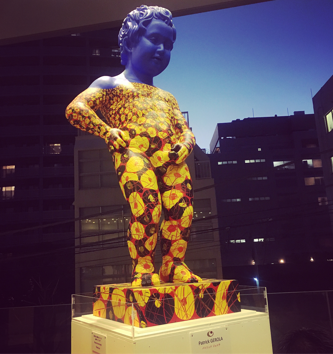 Patrick Gerola's Manneken-Pis